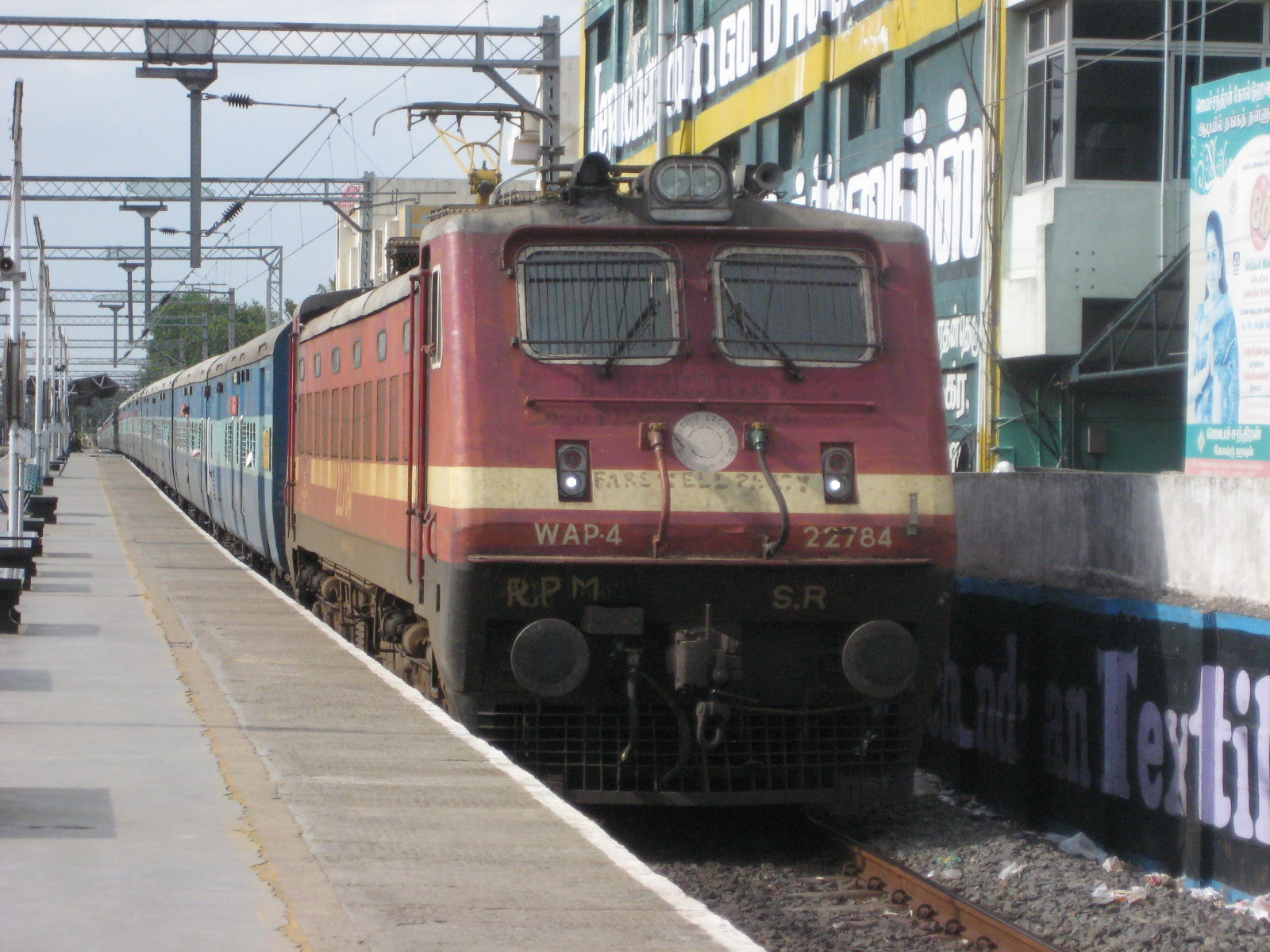 Pallavan express hauled by WAP-4 Loco